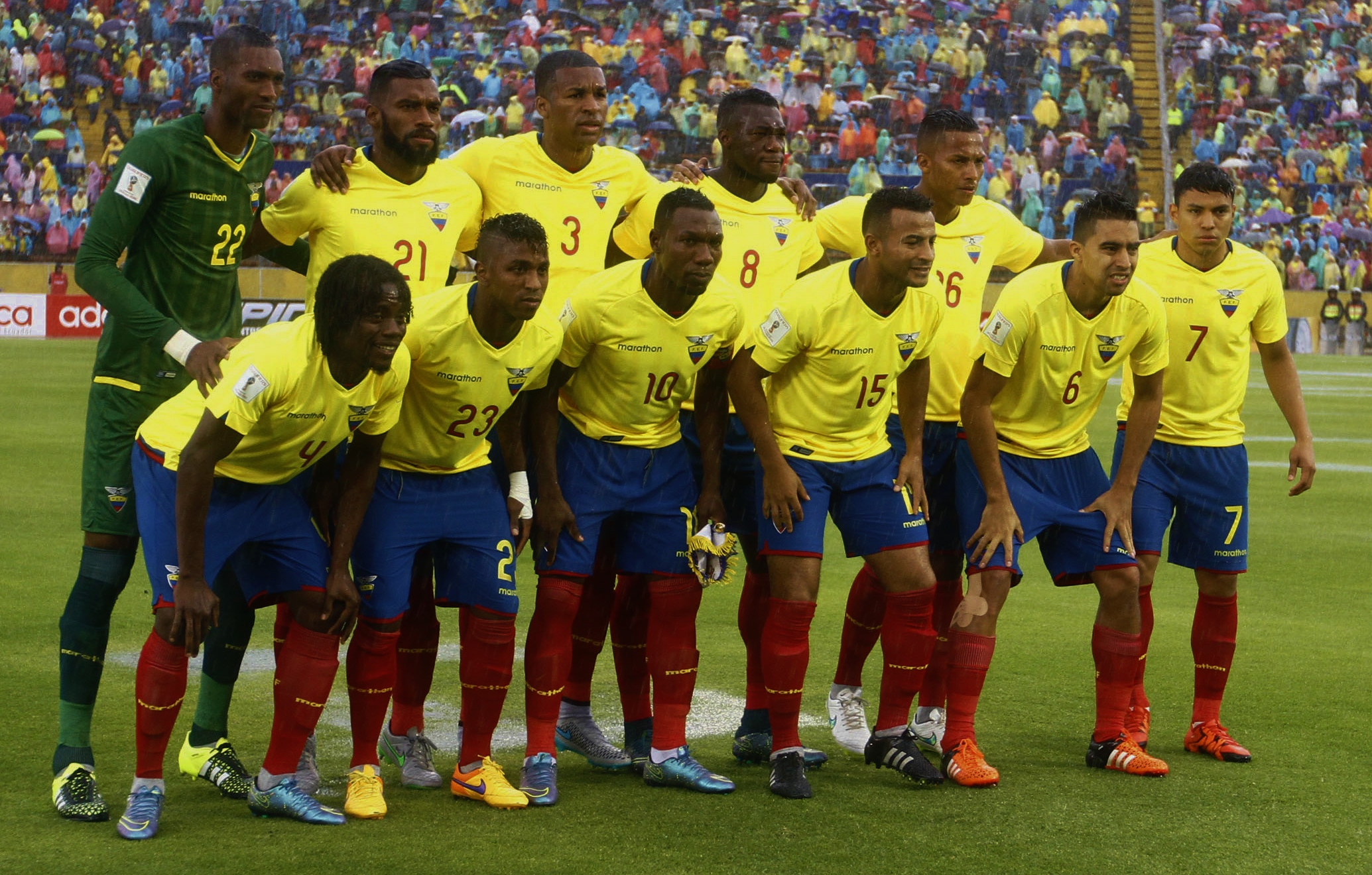 Ecuador national football team 12.10.2015